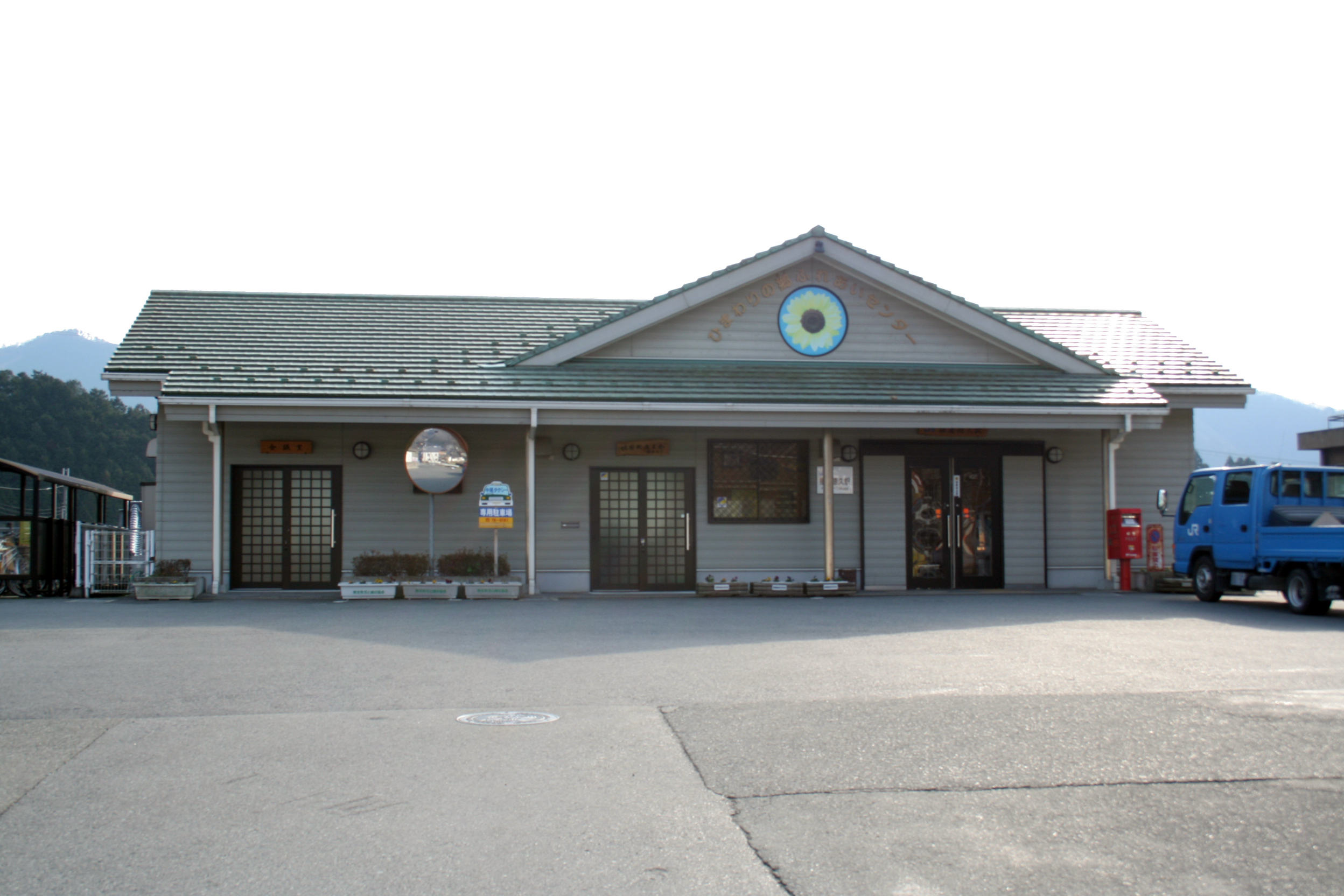 Harima-Tokusa Station is a train station in Sayō, Sayō District, Hyōgo , Japan.